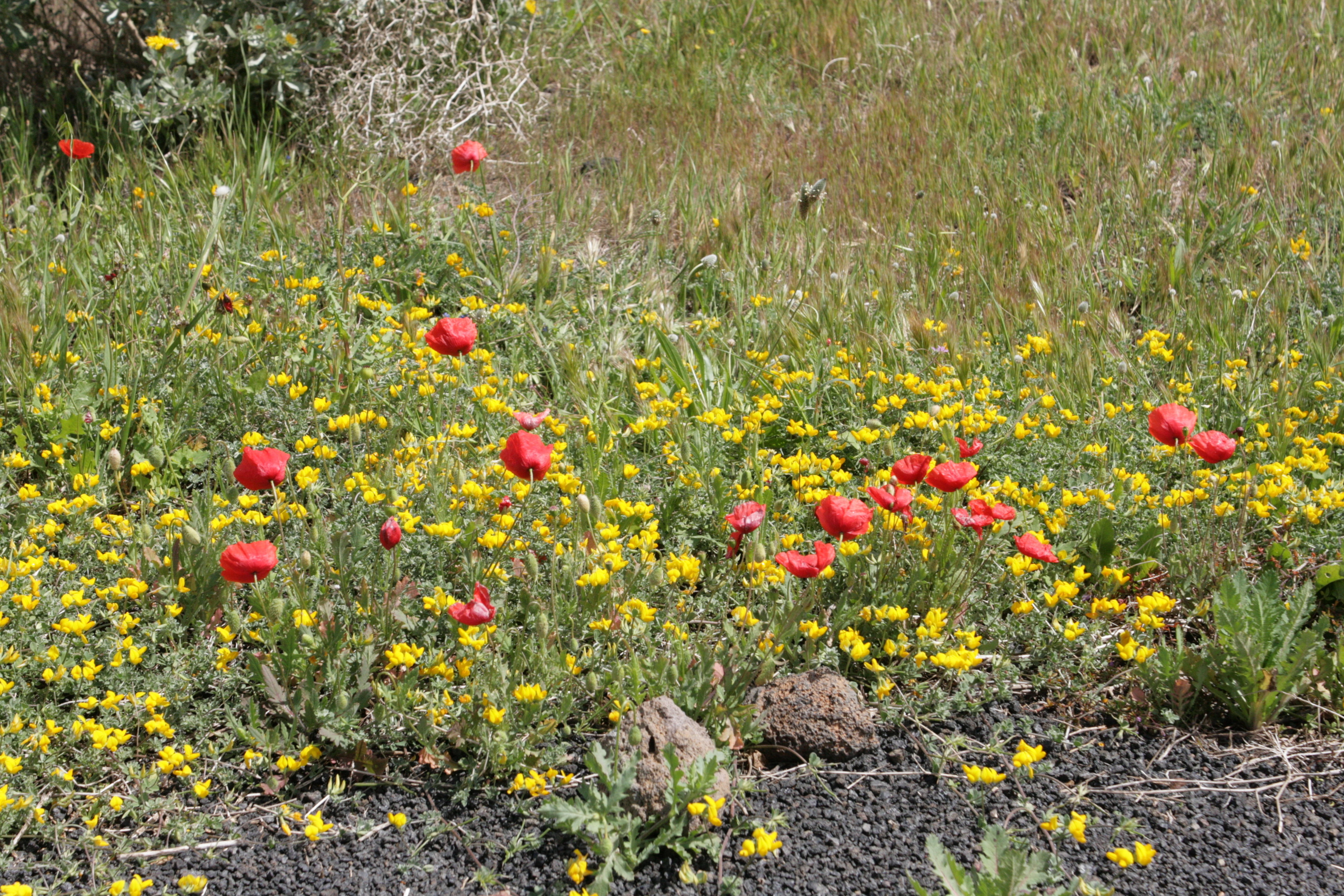 Papaver rhoeas and Lotus lancerottensis growing at road LZ-10 in Los Valles, Teguise, Lanzarote, Canary Islands